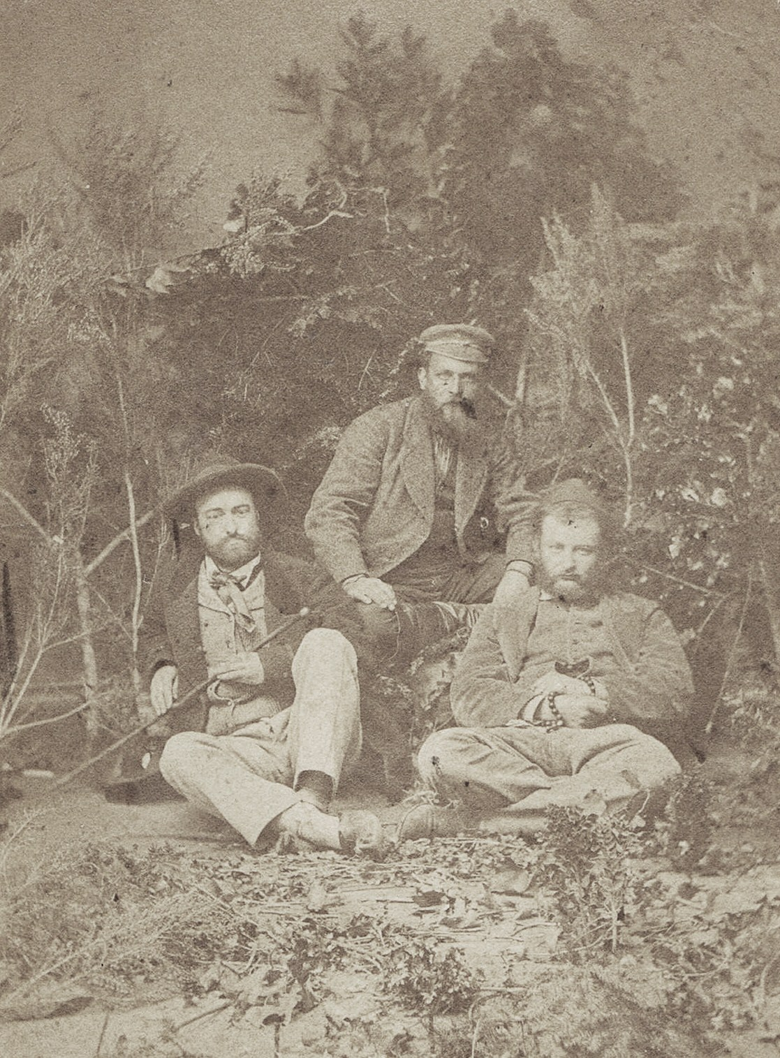 Louis Duchesne (1843-1922), at left, in Turquey, near 1875-1885